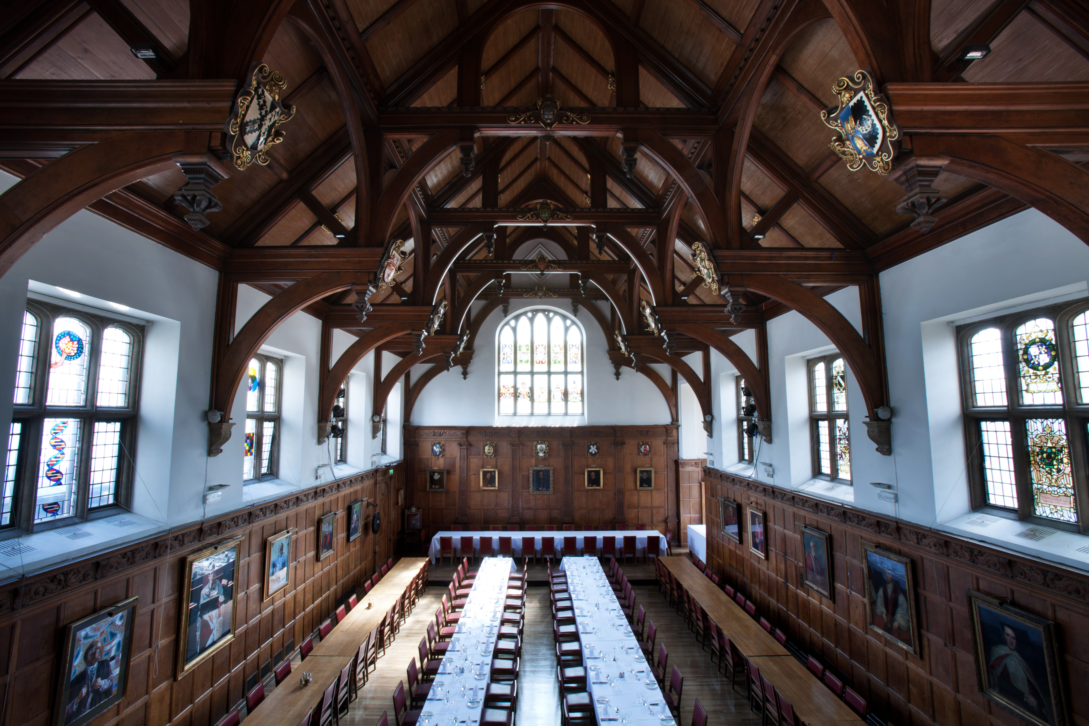 Main Hall. Gonville & Caius College, Cambridge